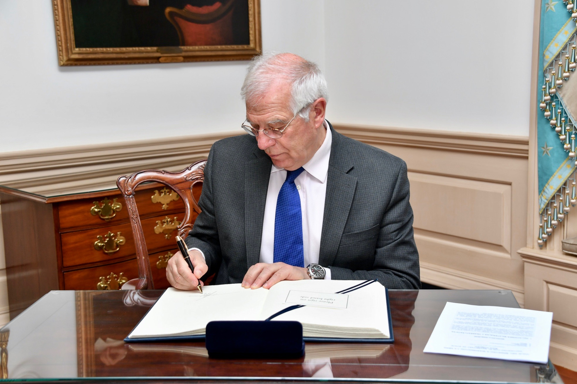 Spanish Foreign Minister Josep Borrell signs Secretary Pompeo's guestbook before their meeting at the U.S. Department of State in Washington, D.C., on April 1, 2019. [State Department photo by Michael Gross/ Public Domain]